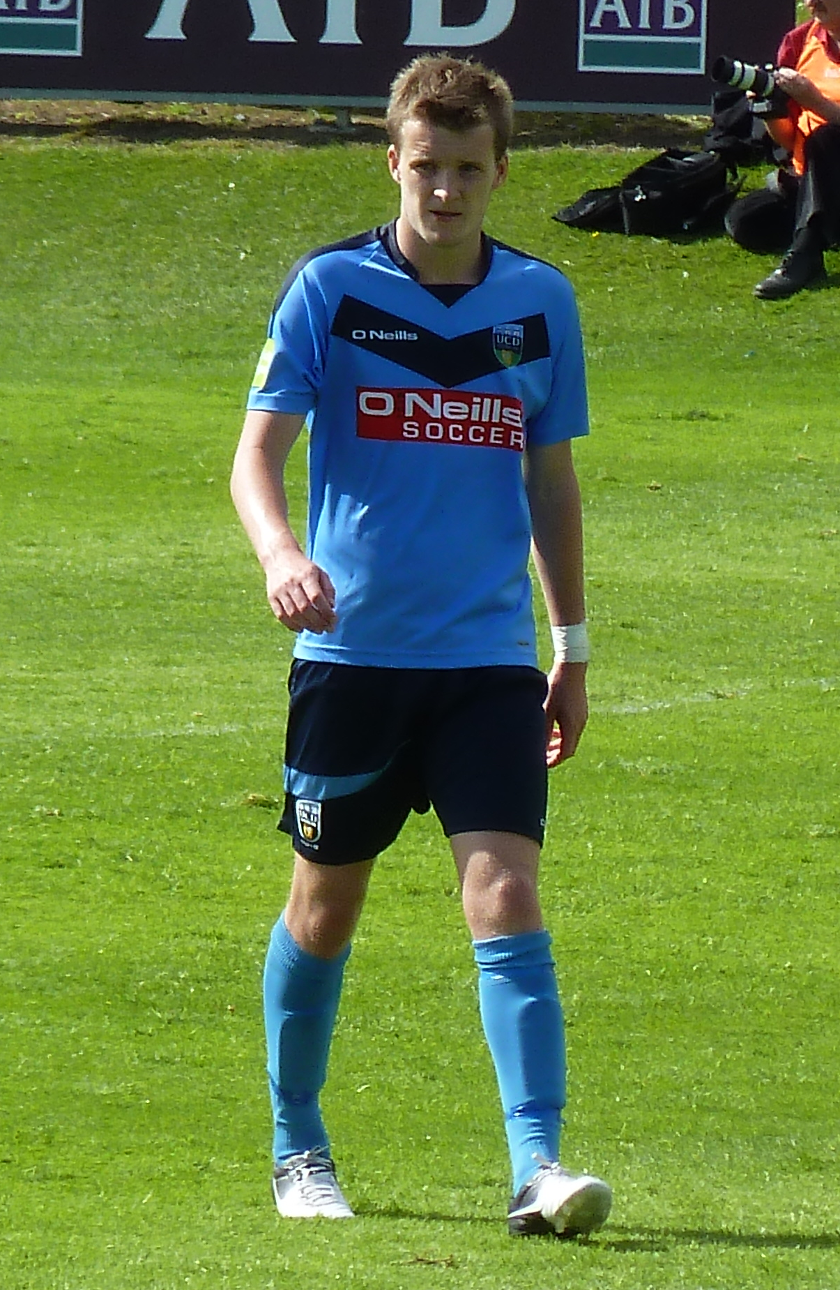 Paul Corry professional footballer